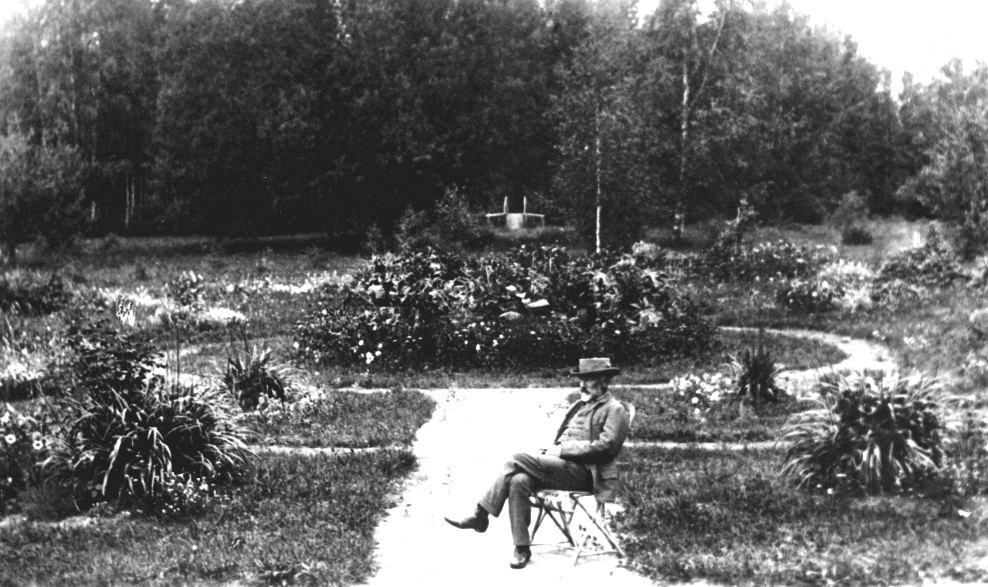 Tchaikovsky seated in the garden of his home at Frolovskoye